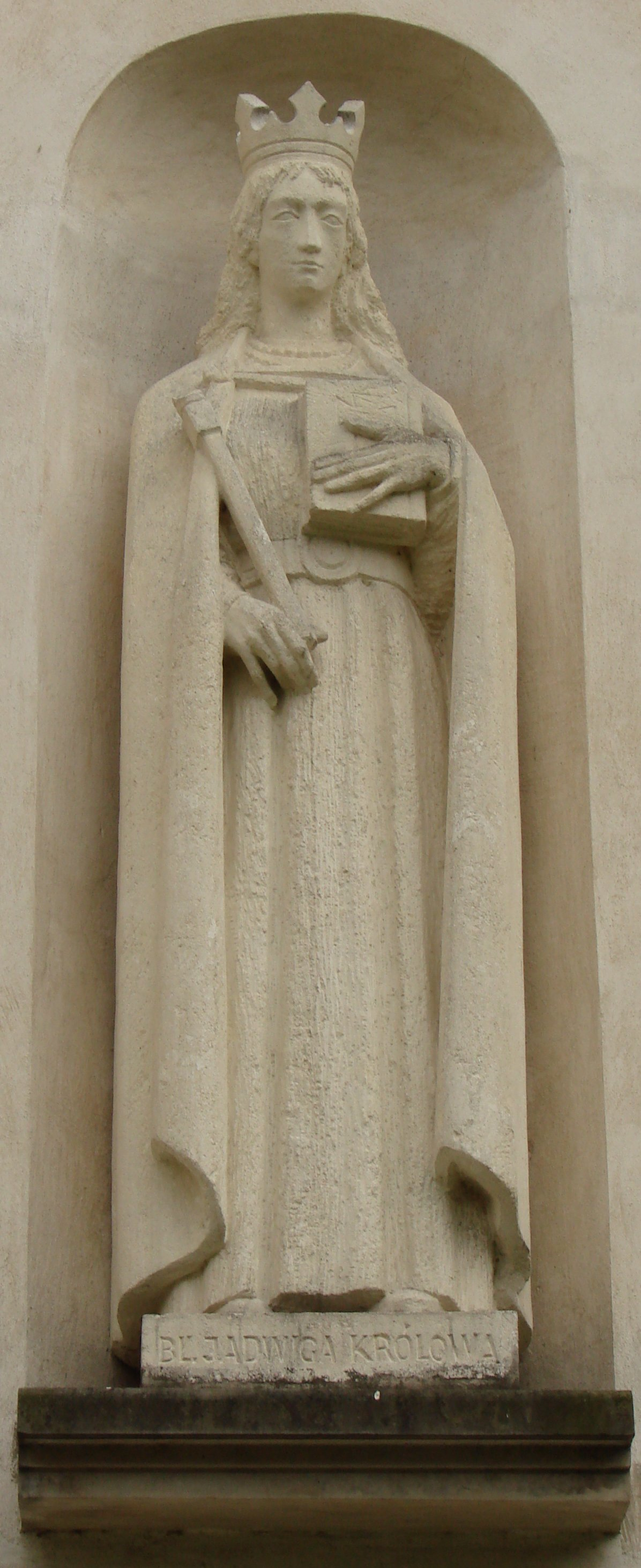 Sculpture of Jadwiga Andegaweńska from Saint Joseph's church in Muszyna, Poland